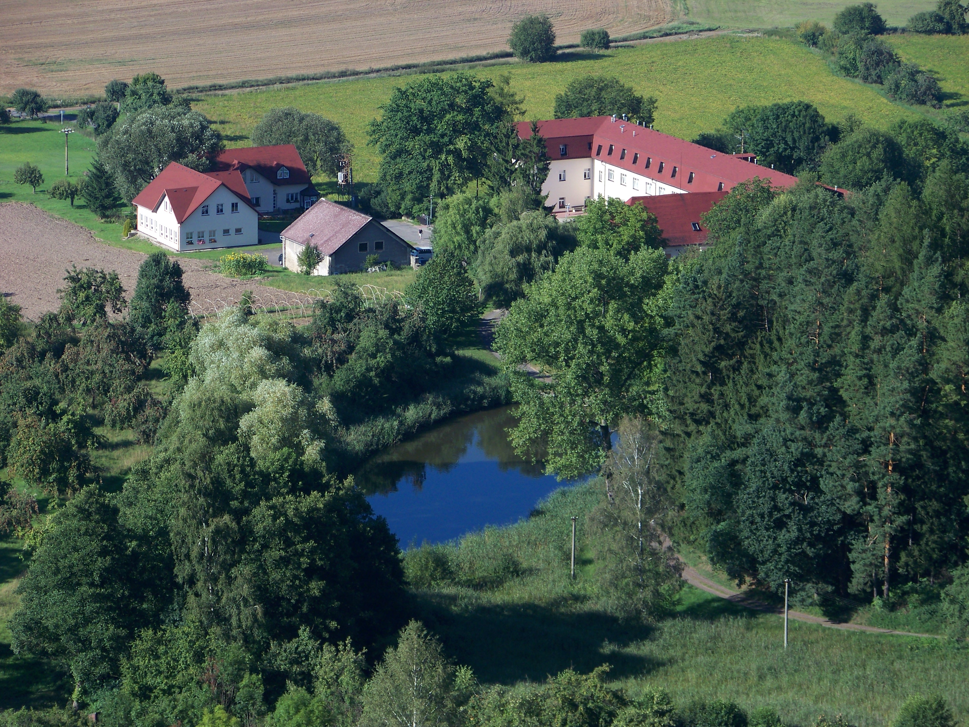 Mnichovo Hradiště-Olšina-Kurovodice Mladá Boleslav District, Central Bohemian Region, the Czech Republic. - OpenStreetMap(Info)